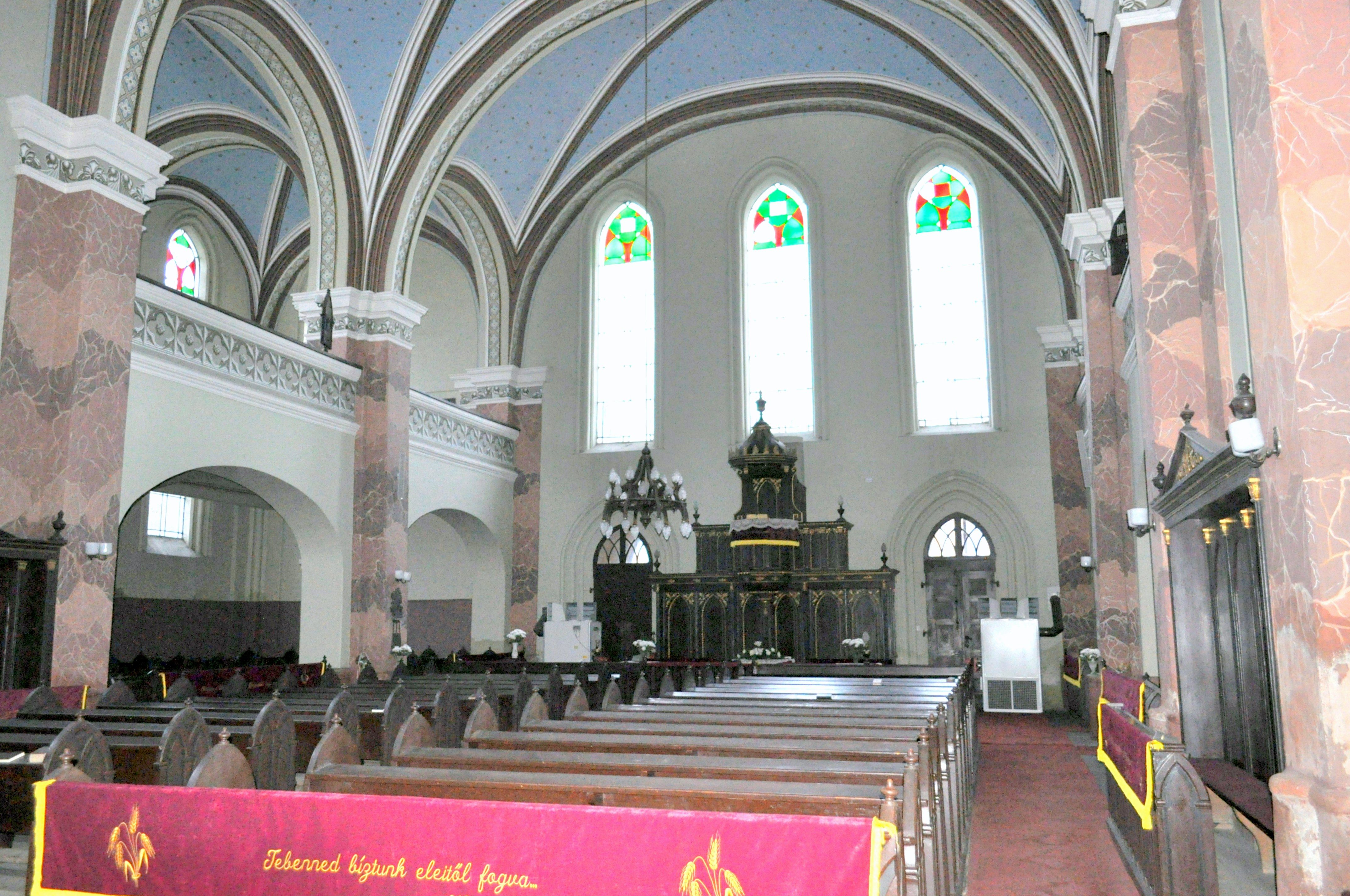 Reformed church in Sighetu Marmației, Maramureș County, Romania